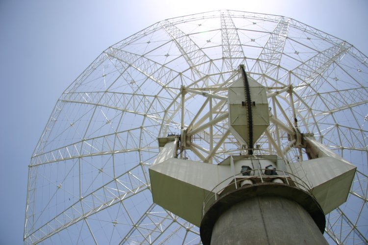 One of the dishes of the Giant Metrewave Radio Telescope (GMRT) near Pune, Maharashtra, India. Picture was taken on 2005-08-07 by Sven Lafebre.